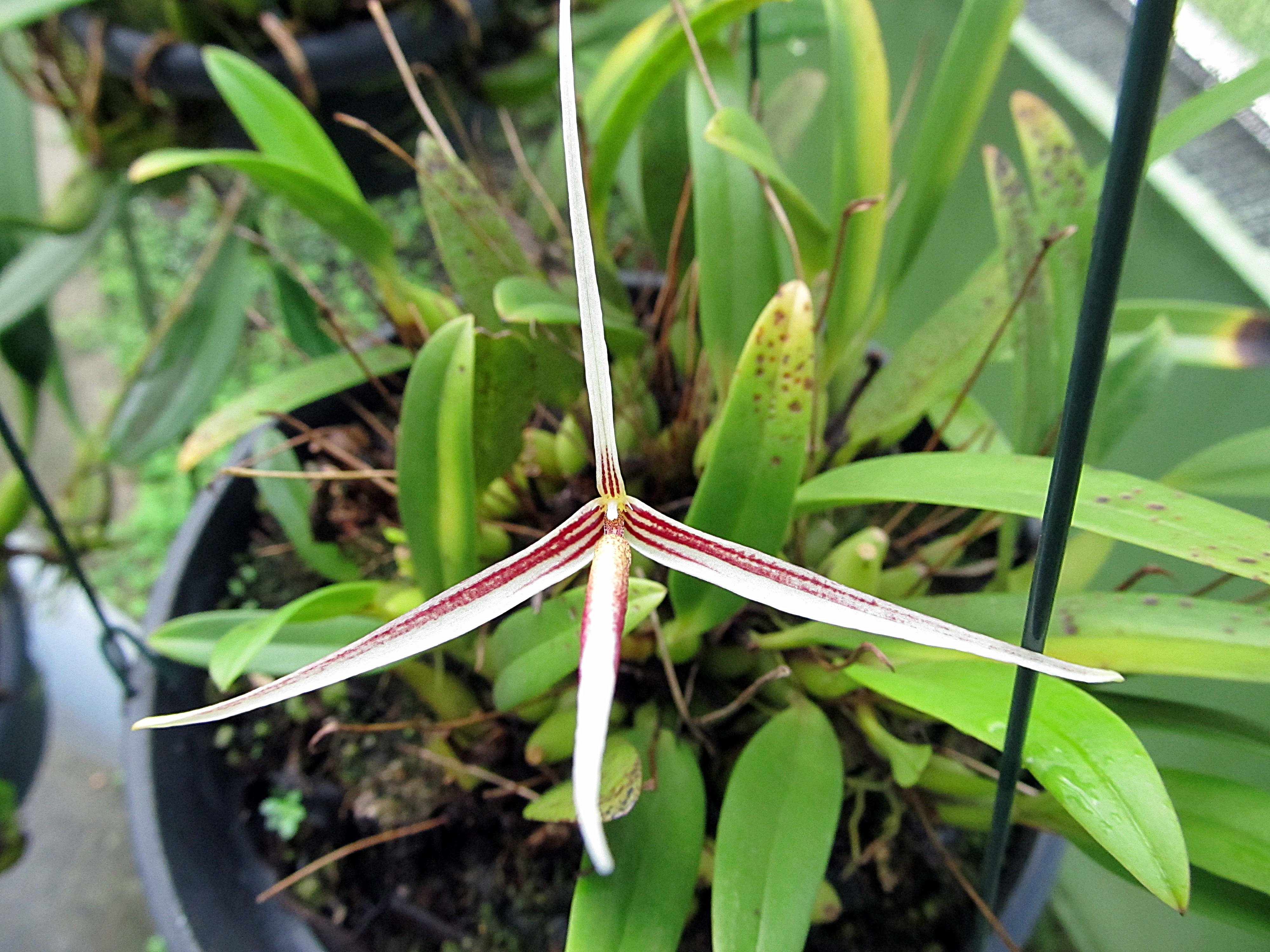 Photo by Christian Aparecido Demetrio 12/03/2013